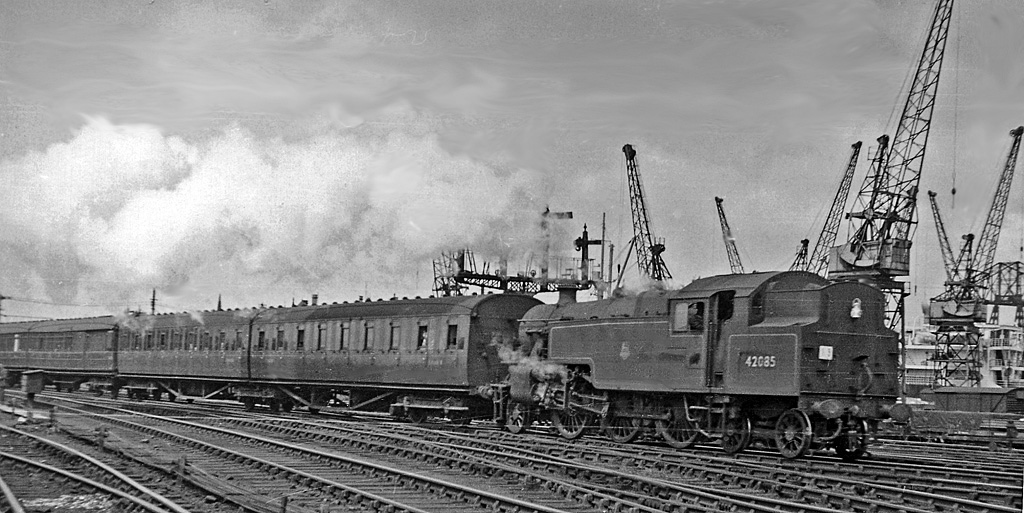 Darlington to Saltburn local train at Guisborough Junction, Middlesbrough. View northward, to the Tess-side Docks just east of Middlesbrough station; ex-North Eastern Darlington - Eaglescliffe - Middlesbrough - Saltburn etc. lines. The locomotive is a fairly new LMS-type Fairburn 4MT 2-6-4T, No. 42085.